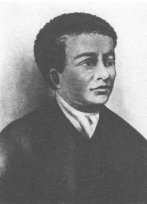 Image of Benjamin Banneker. (Image is imaginary. No known portraits of Benjamin Banneker exit.